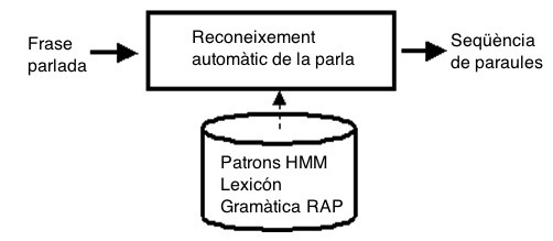 BLOCS